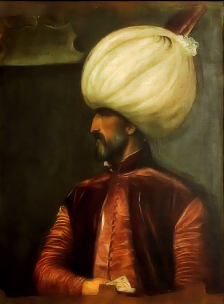 Suleiman the Magnificent. Hungarian National Museum